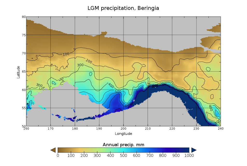 Precipitation at last gracial maximum in beringia, ca. 22000 years before past, according of CCSM4 climate simulation.